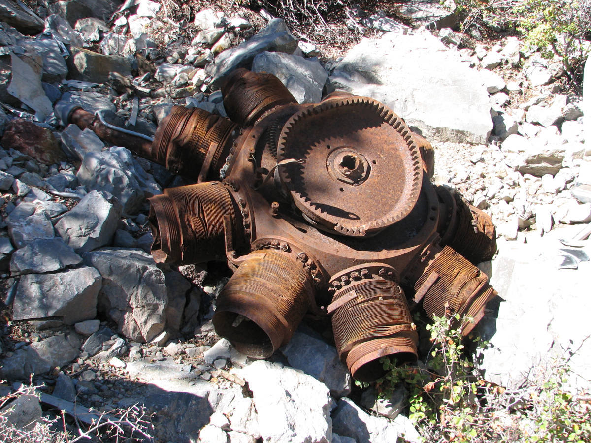 One of the two engines on Mount Potosi where the plane crashed.